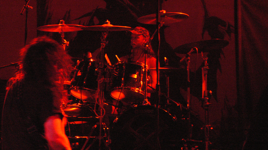 This is Donald Tardy playing drums for Obituary on 11 September 2007 at Jaxx Nightclub in West Springfield, Virginia. I shot this image on my Panasonic Lumix DMC-LX1 digital camera. OzzyRules 16:35, 13 November 2007 (UTC)